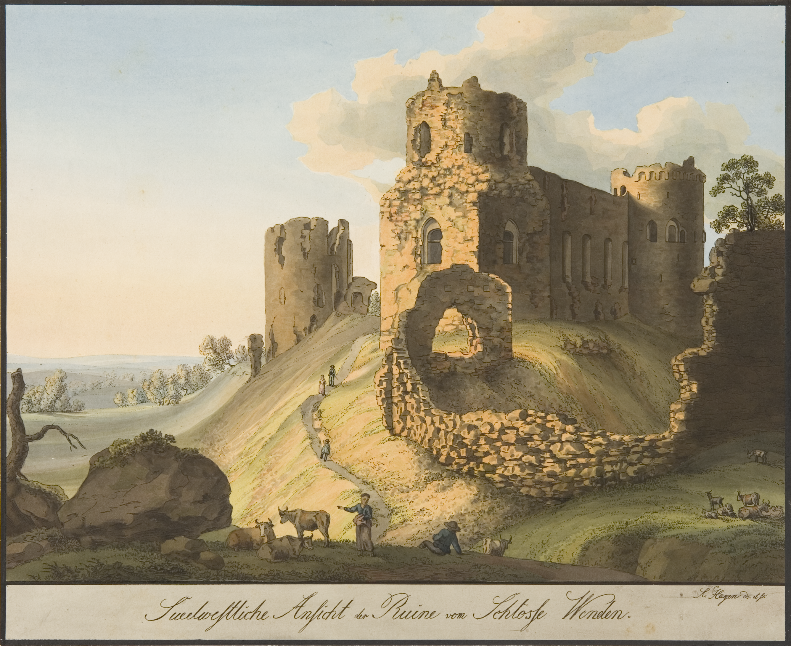 A drawing of Cēsis Castle in (supposedly) 1820 by August Mattias Hagen.